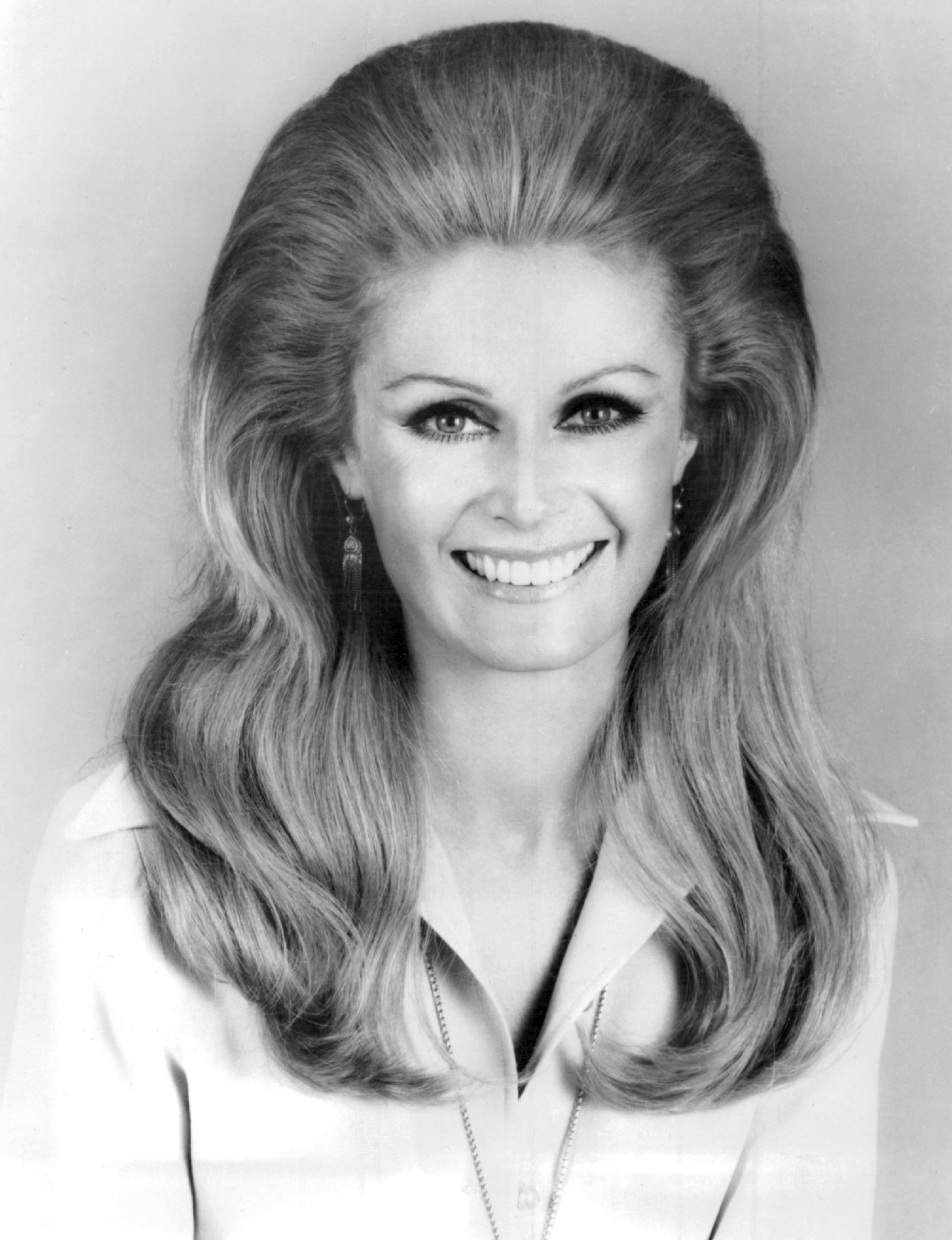 Photo of Diana Hyland who played Susan Winter, the alcoholic wife of Tom, from the television series Peyton Place